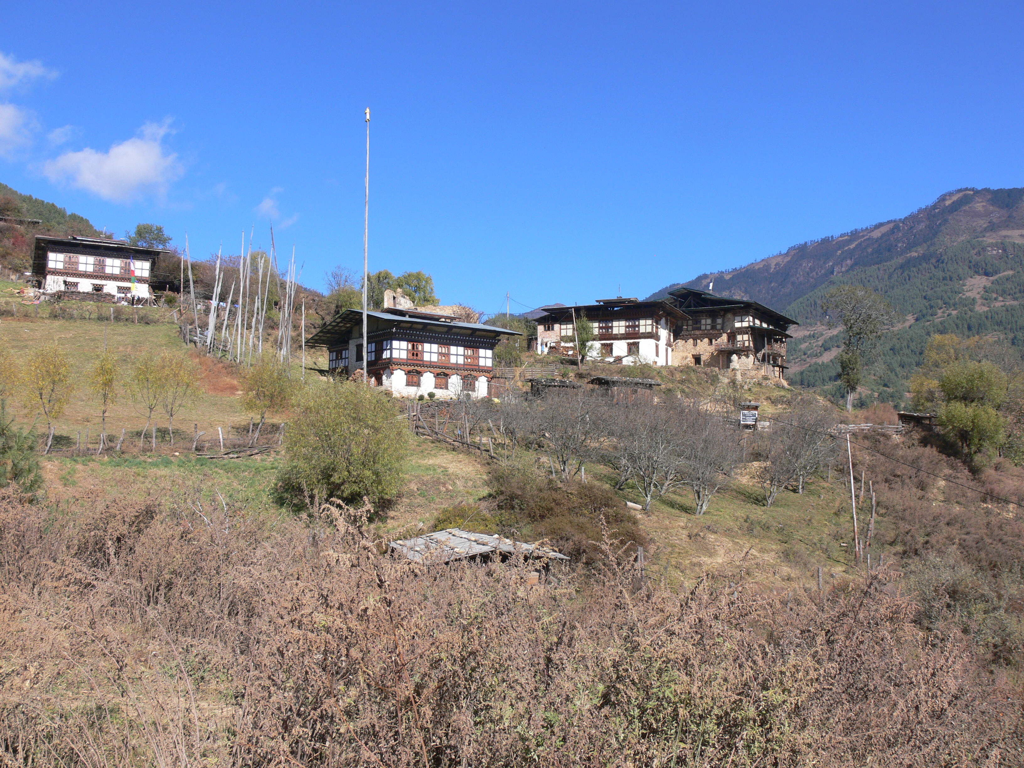 Traditional houses in the Tang Valley, Bumthang, Bhutan